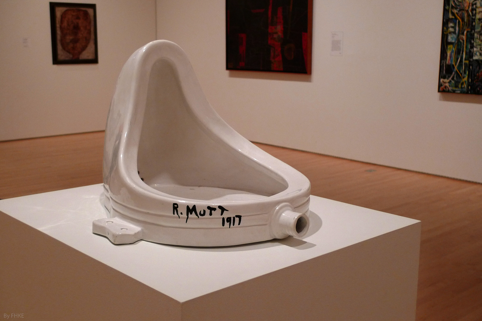 Fountain by Duchamp